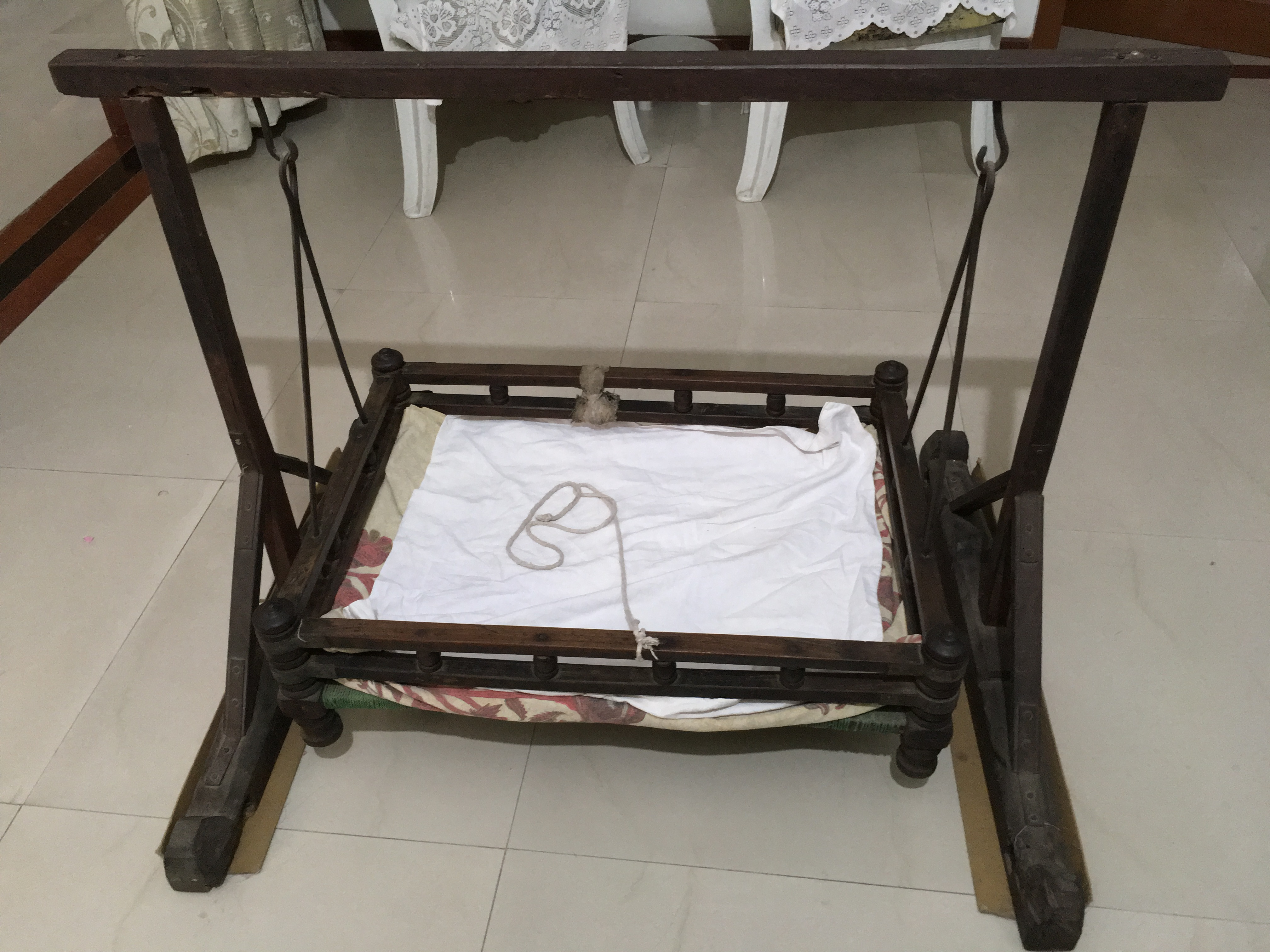 An Indian cradle with detailed woodwork